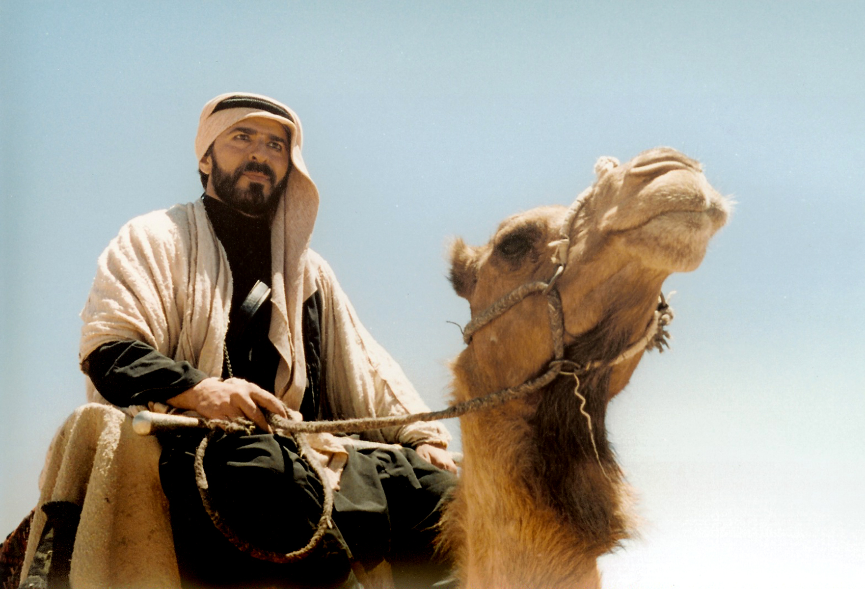 Rasheed Assaf touring the world on his camel - Syrian Actor in the Drama series - The Last Cavalier